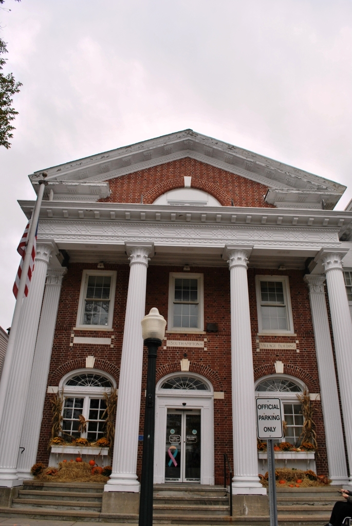 Southampton, New York